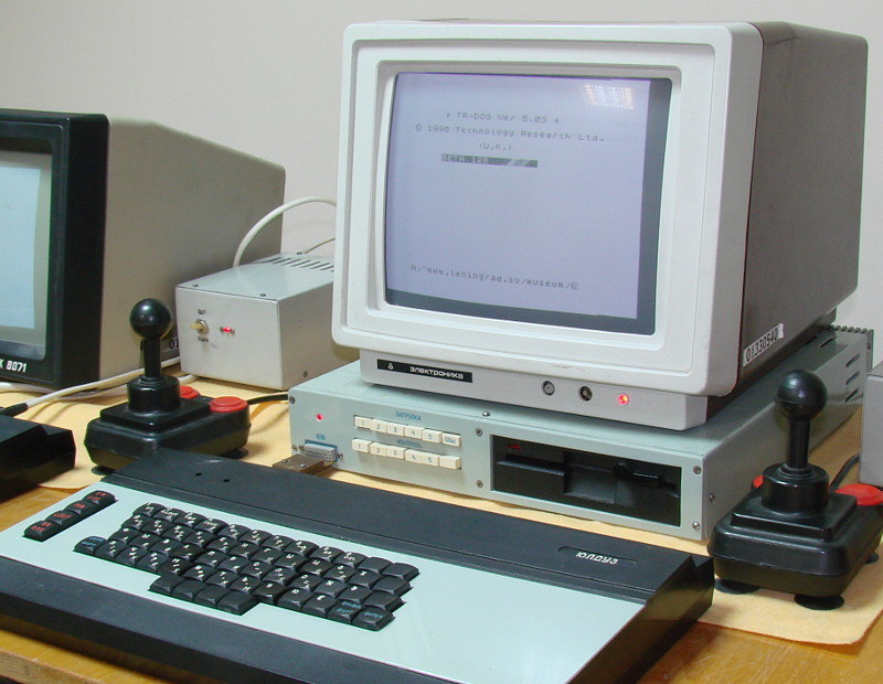 Soviet made school personal computer "Julduz" (Azerbajdzan lang., mean "Star")